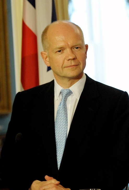 William Hague at the U.S. Department of State